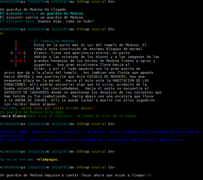 In-game capture from Medina MUD